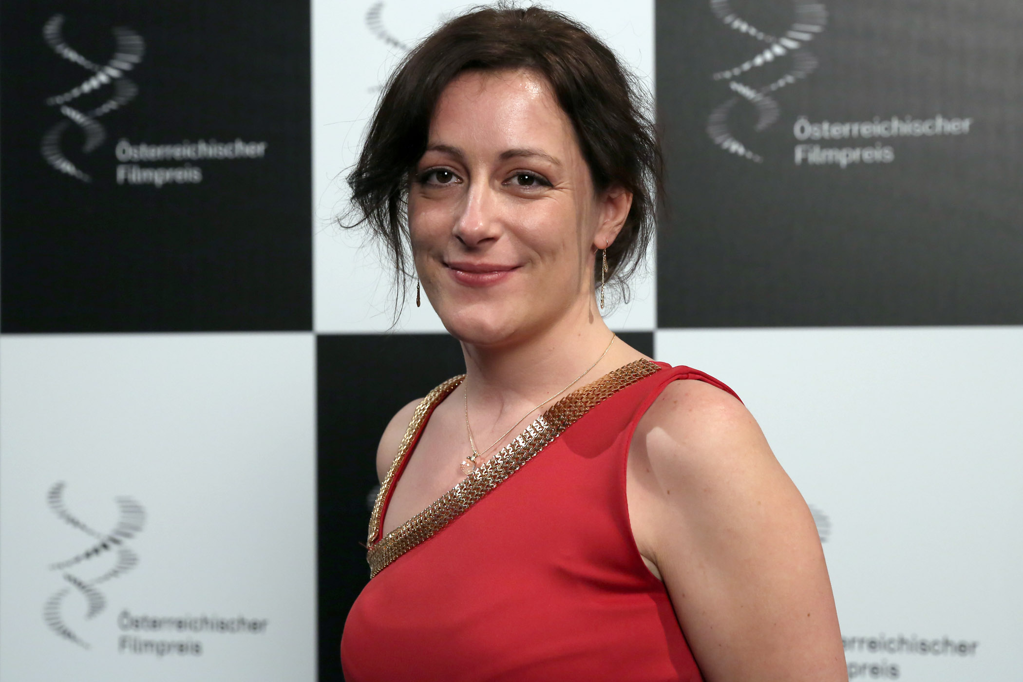 Judit Varga (best film score: "Deine Schönheit ist nichts wert"), Austrian Film Awards 2014 (Grafenegg, Austria).